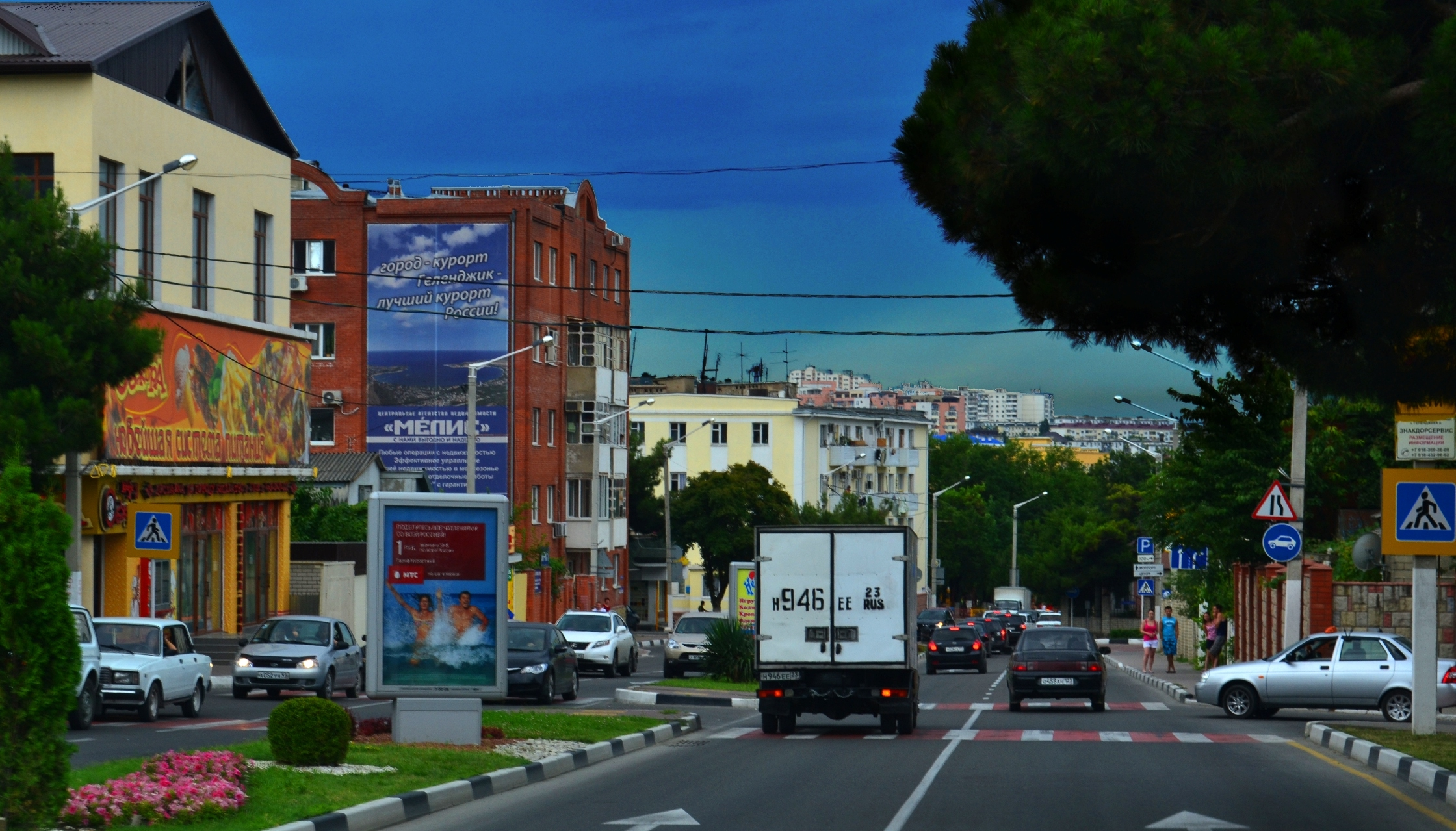 Street of Gelendzhik